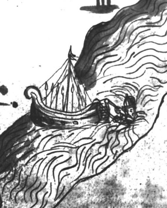 Yermak, wearing two royal suits of armor, drowning in a river